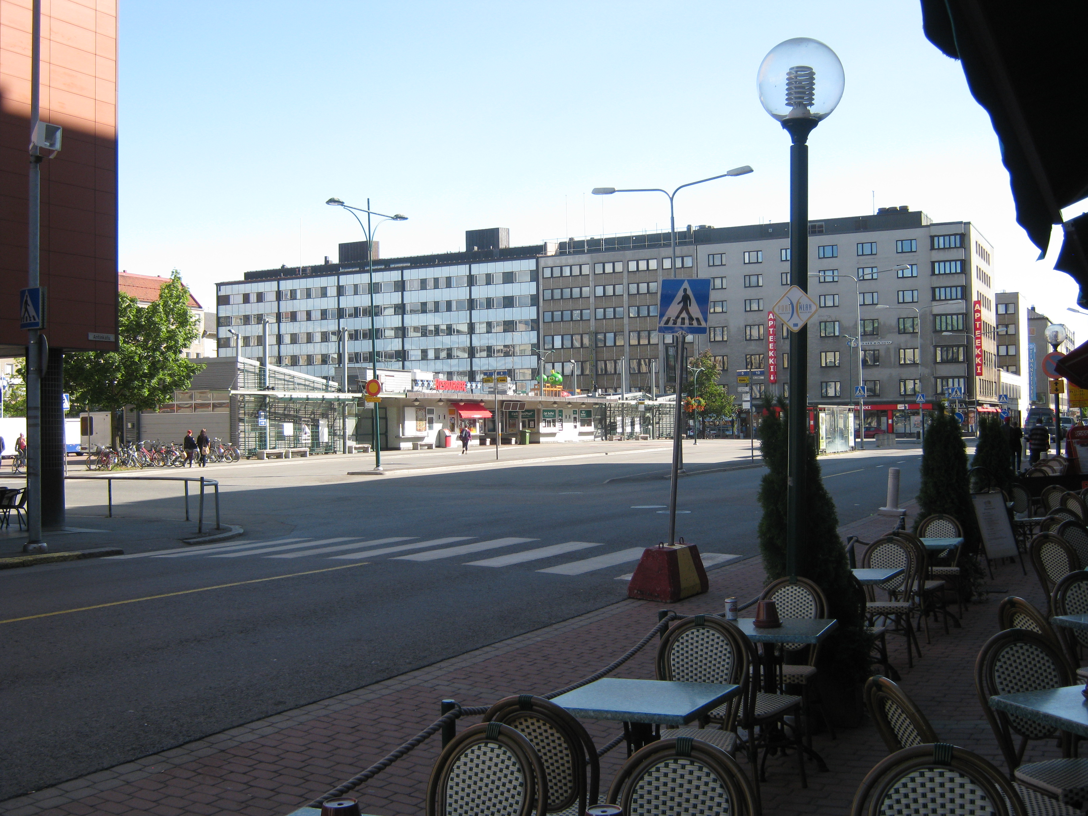 Market square of Pori, Finland.